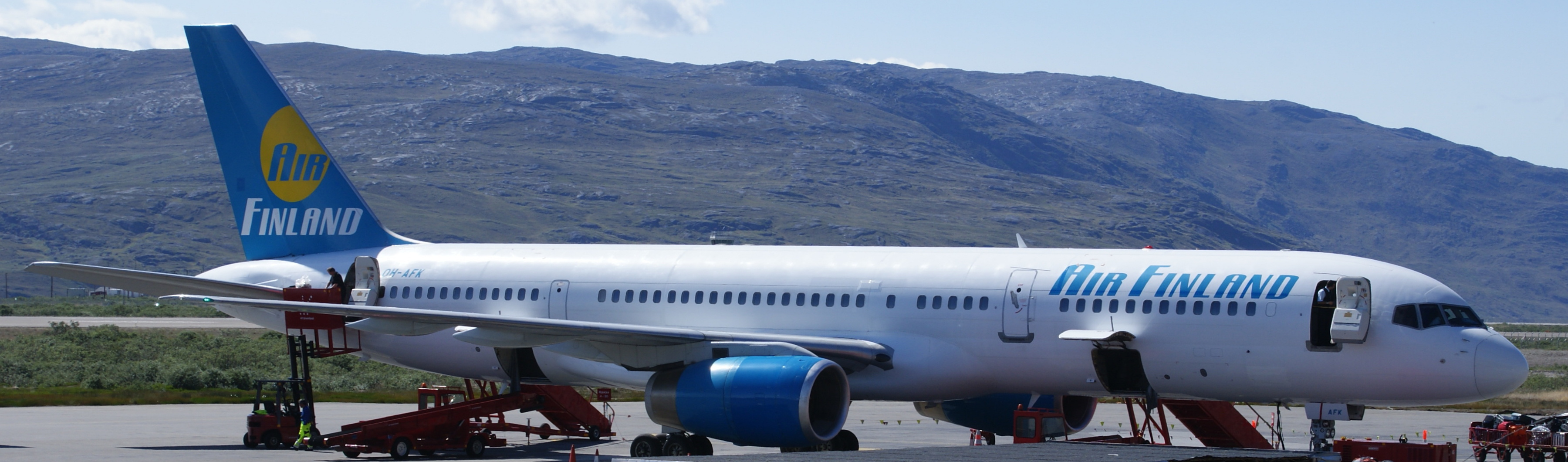 Air Finland Boeing 757-200 at Kangerlussuaq Airport, Greenland. During the summer season 2010 the airline operates the Kangerlussuaq–Copenhagen and Narsarsuaq–Copenhagen routes for Air Greenland.